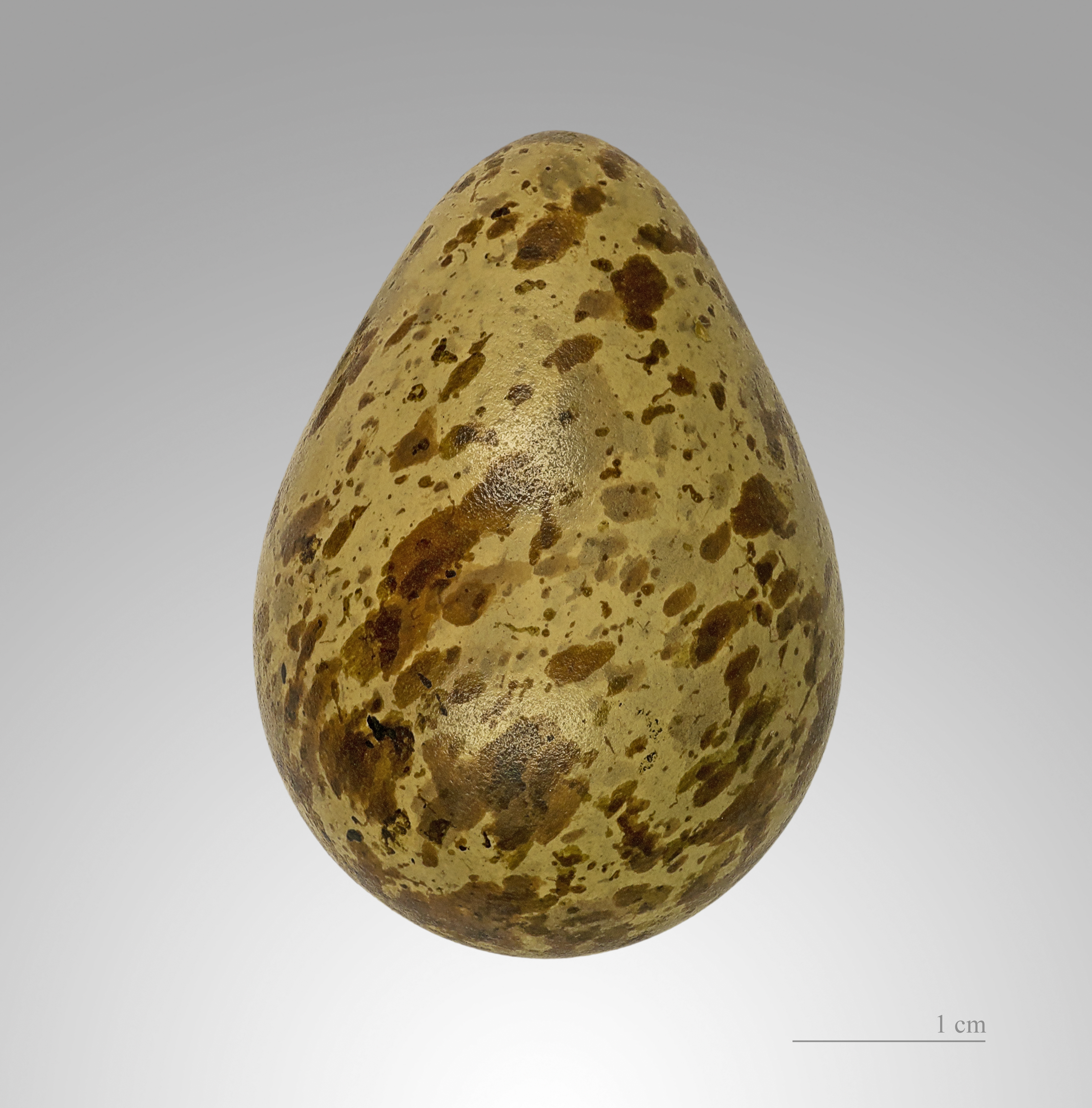 Egg of Ruddy Turnstone. Collection of René de Naurois/Jacques Perrin de Brichambaut.